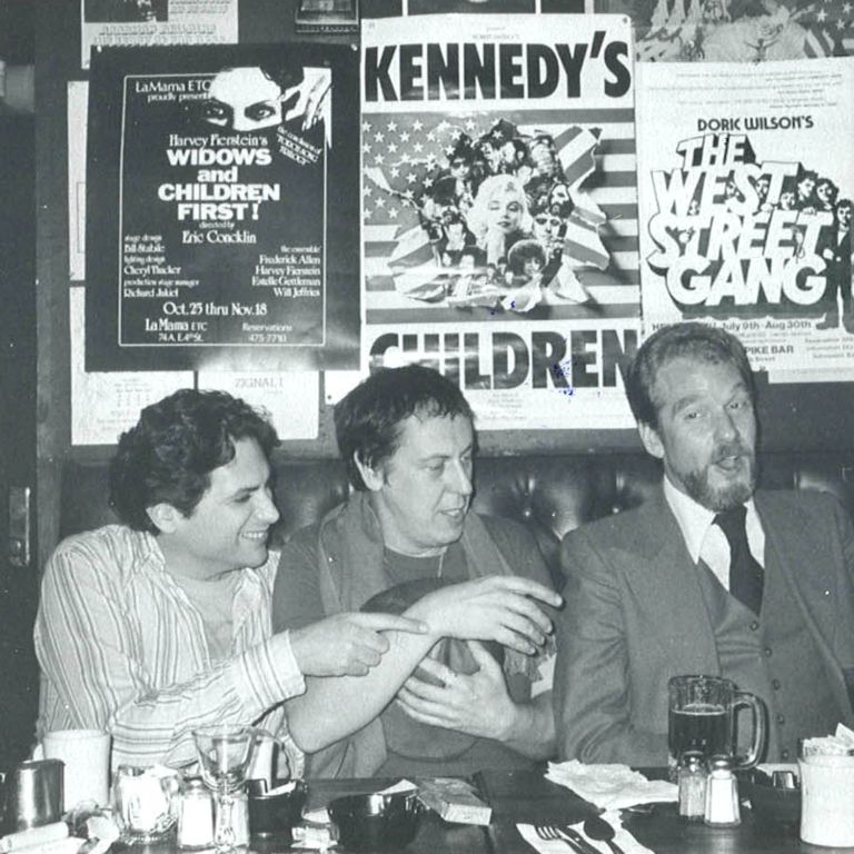 Playwrights Harvey Fierstein, Robert Patrick, and Doric Wilson under posters for their own plays at Phebe's, "the Sardi's of Off-Off Broadway," 1981. Photo by Adam Craig, and provided for use on Wikipedia by Mr. Robert Patrick